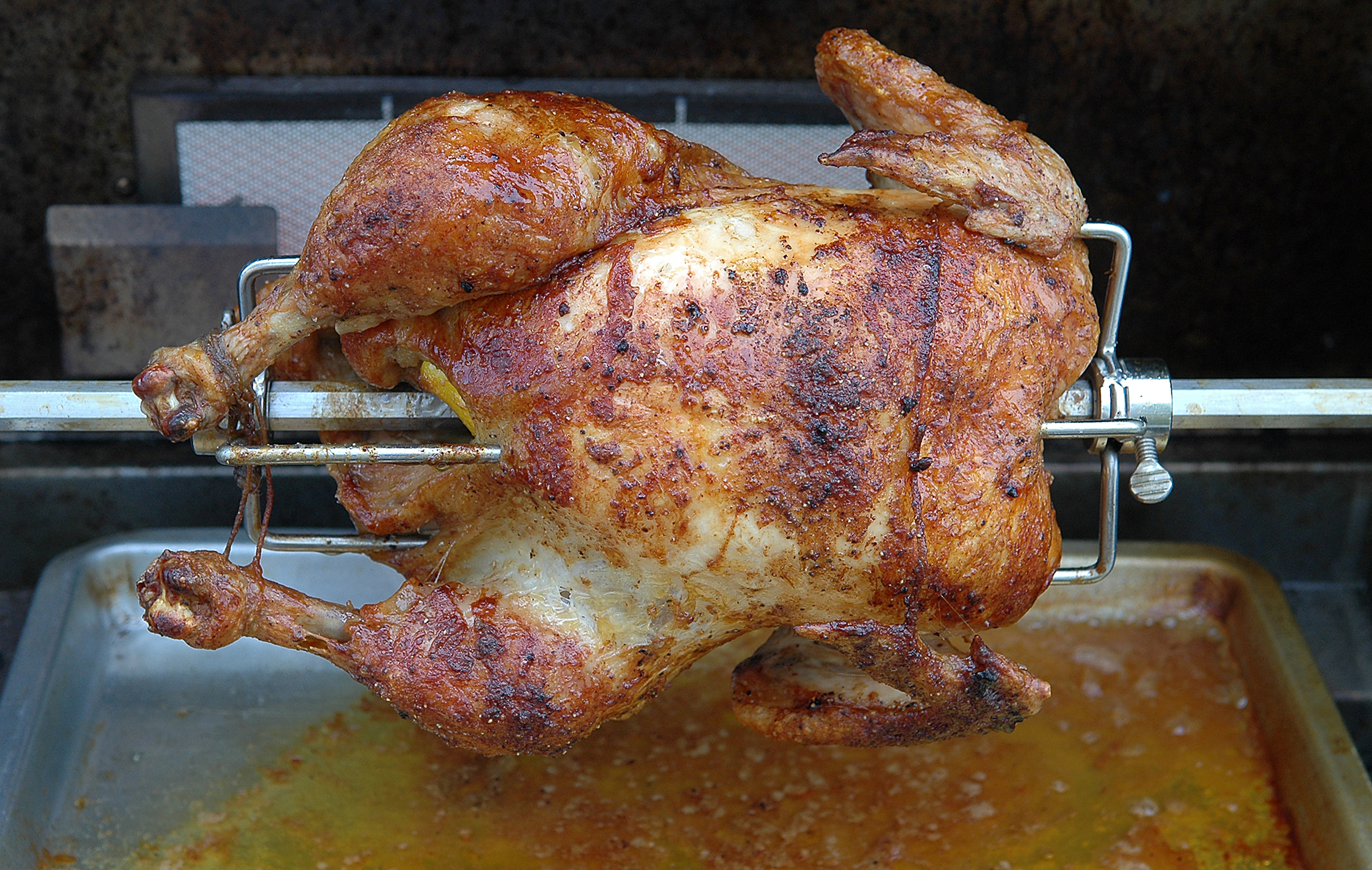 Chicken cooking on a gas grill rotisserie. The yellow protruding from the cavity is a pierced whole lemon.